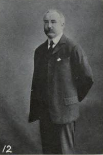 Robert Gordon Shewan, head of the Shewan, Tomes & Co. and member of the Legislative Council of Hong Kong